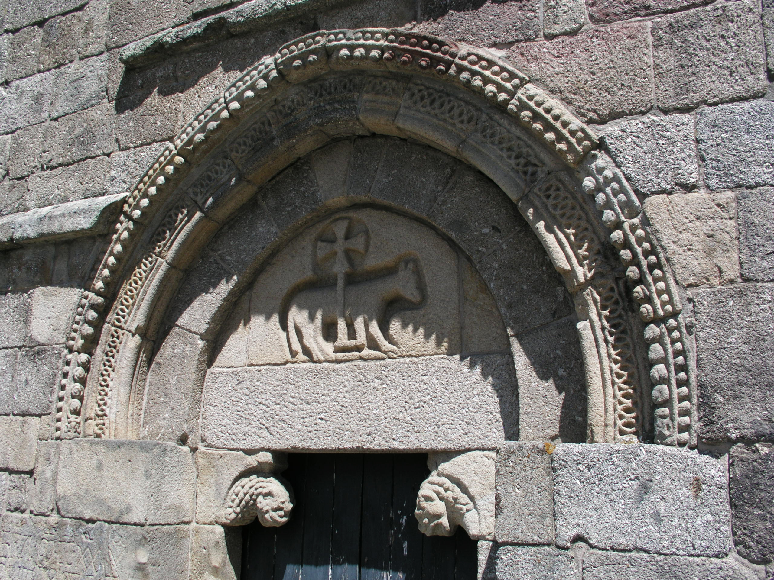 Romanic church of Bravães, Ponte de Barca, Portugal